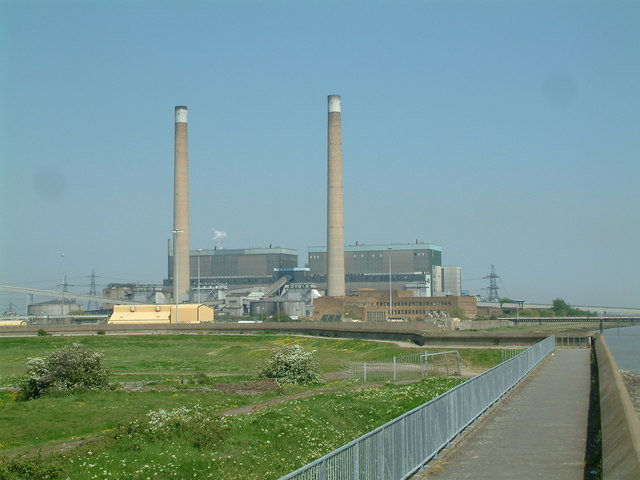 Tilbury Power Station, Essex, England. The 1400Megawatt coal fired power station began producing electricity in 1956.